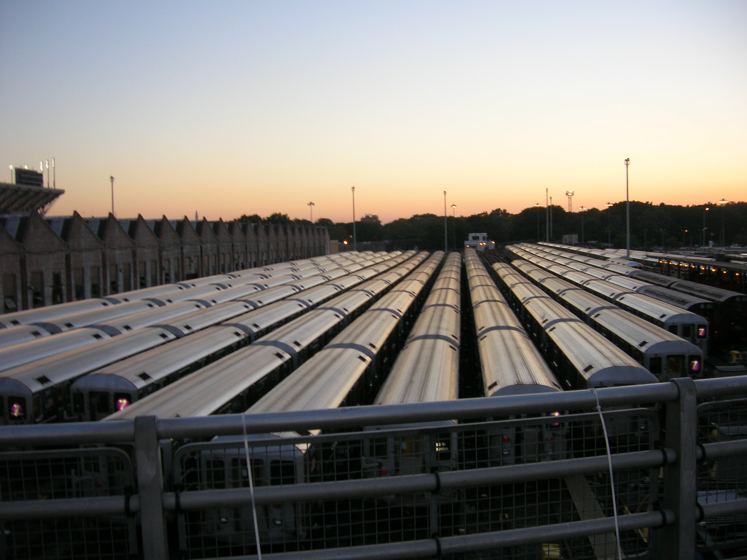 Corona Yard, New York City Subway